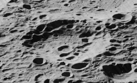 Oblique view of Tikhov, on the far side of the moon, facing west.